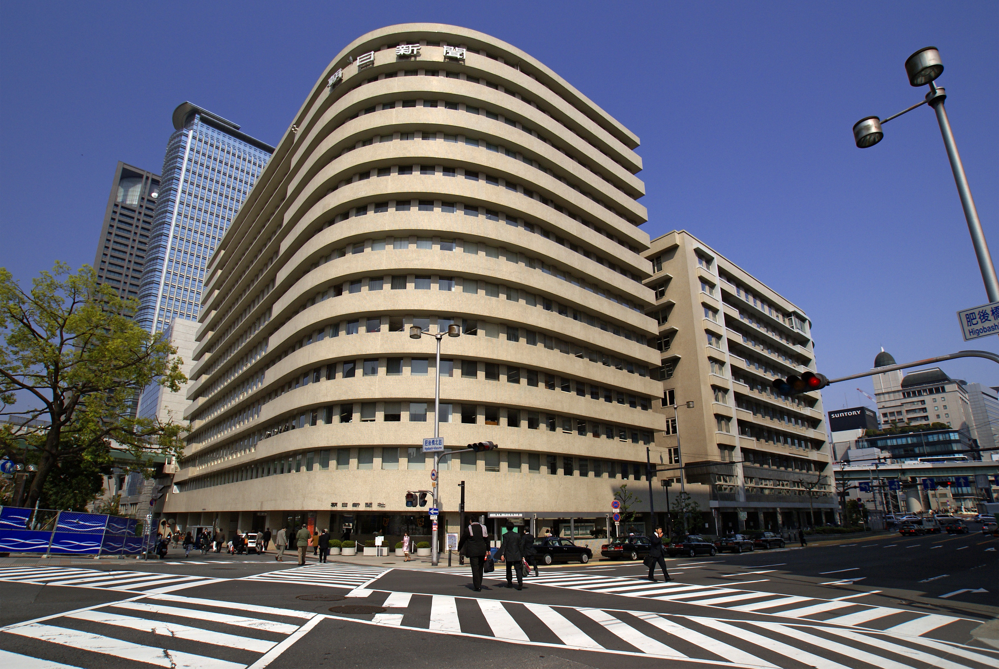 Asahi Shinbun Building in Osaka, Osaka prefecture, Japan